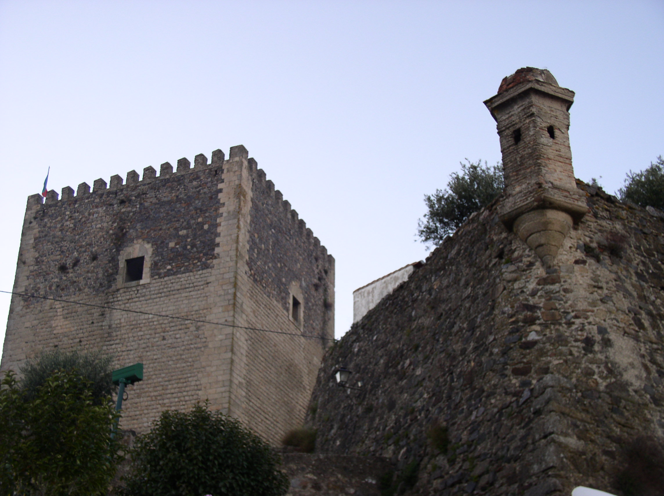 Bartizan and Fortifications de Castelo de Vide, Portugal.